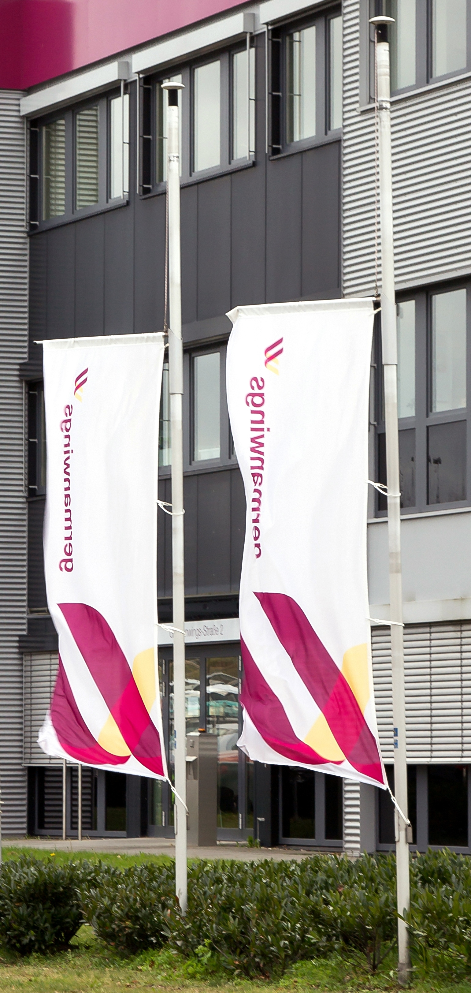 Germanwings Headquarters in Cologne-Porz Flags are half-mast because of Germanwings-Flight 9525